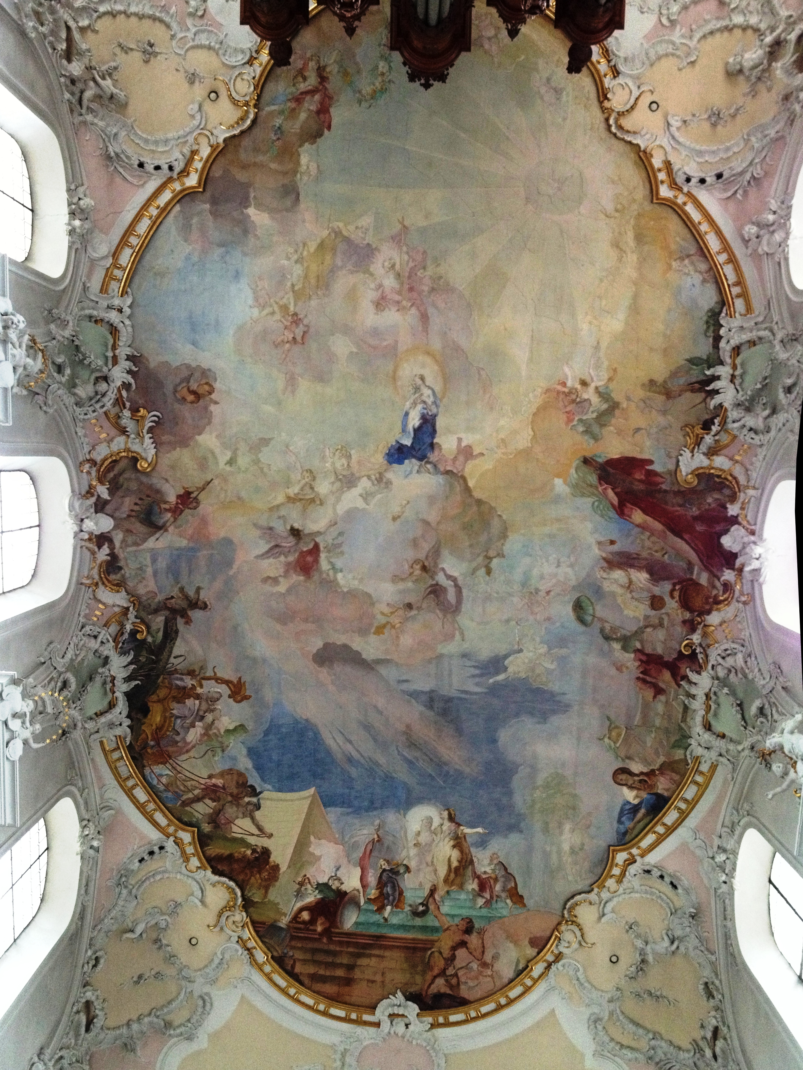 Frescoed ceiling of Arlesheim Cathedral.